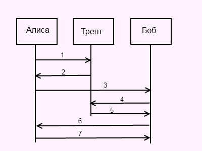 The Needham–Schroeder Public-Key Protocol